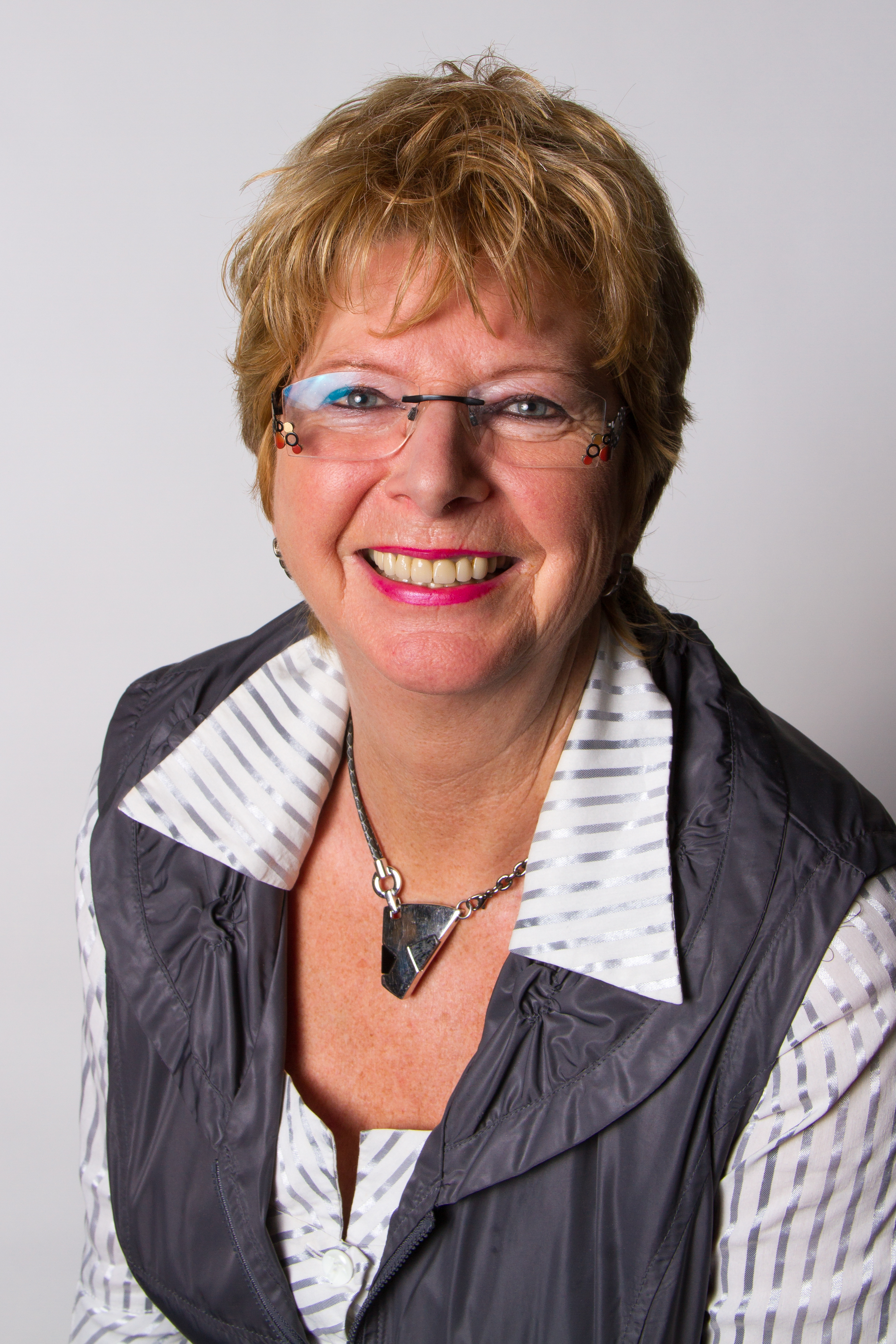 Angelika Jahns, lower saxon politician (CDU) and member of the Landtag of Lower Saxony